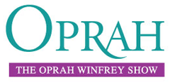 Classic logo for The Oprah Winfrey Show, the premier talk show in the history of American syndicated television.